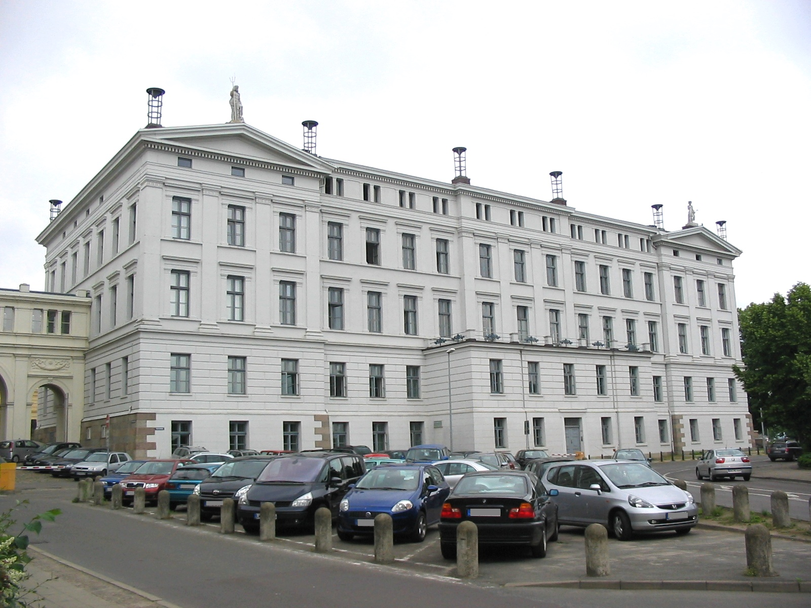 Back of the building Kollegiengebäude I, todays headquarter of the Staatskanzlei (state chancellery), in Schwerin, Mecklenburg-Vorpommern, Germany. Public parking between streets Klosterstrasse and Graf-Schack-Allee.